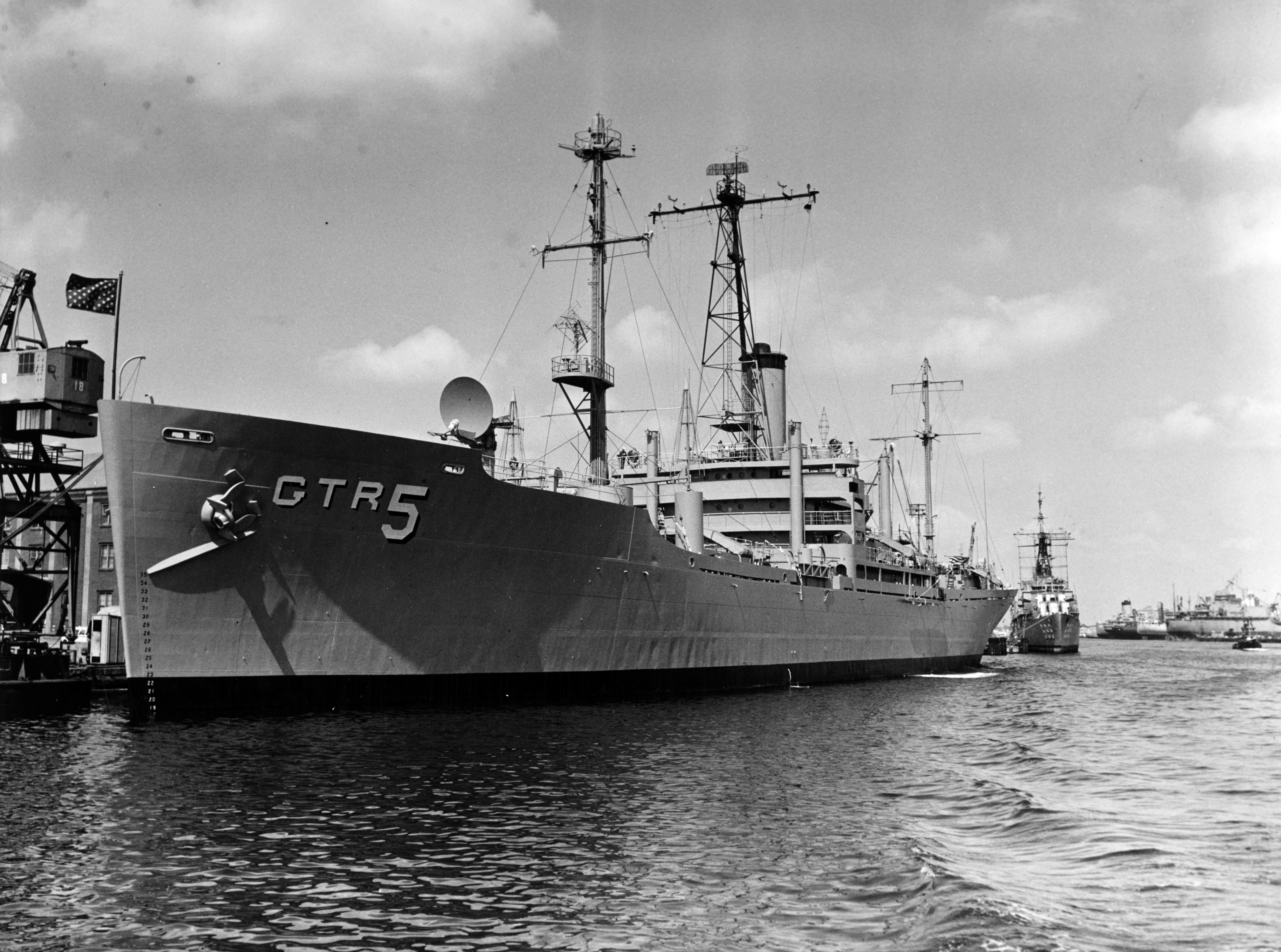 The U.S. Navy electronic reconnaissance gathering ship USS Liberty (AGTR-5) at the Norfolk Naval Shipyard, Portsmouth, Virginia (USA), on 2 October 1966. The destroyer USS Waldron (DD-699) is tied up astern of Liberty.